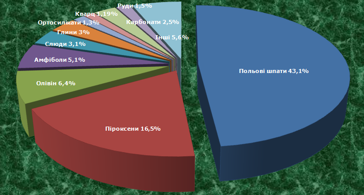 The mineral composition of the Earth crust as a percentage: 43.1% feldspar group; 2.5% carbonates; 1.5% ore; 1.19% quartz family; 1.3% orthosilicates; 3% clay; 3.1% mica group; 5.1% amphibole group; 6.4% olivine; 16.5% pyroxene group; 5.6% other.